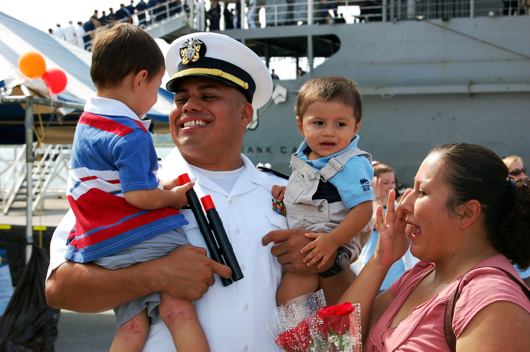 U.S. Navy Lt. Isaias Garcia greets his family during the homecoming celebration for the submarine tender USS Frank Cable (AS 40) in Apra Harbor, Guam, on Oct. 13, 2006. The ship returned to its homeport after a five-week underway period that included visits to Malaysia, Singapore and Hong Kong. ... (Released) (Text by